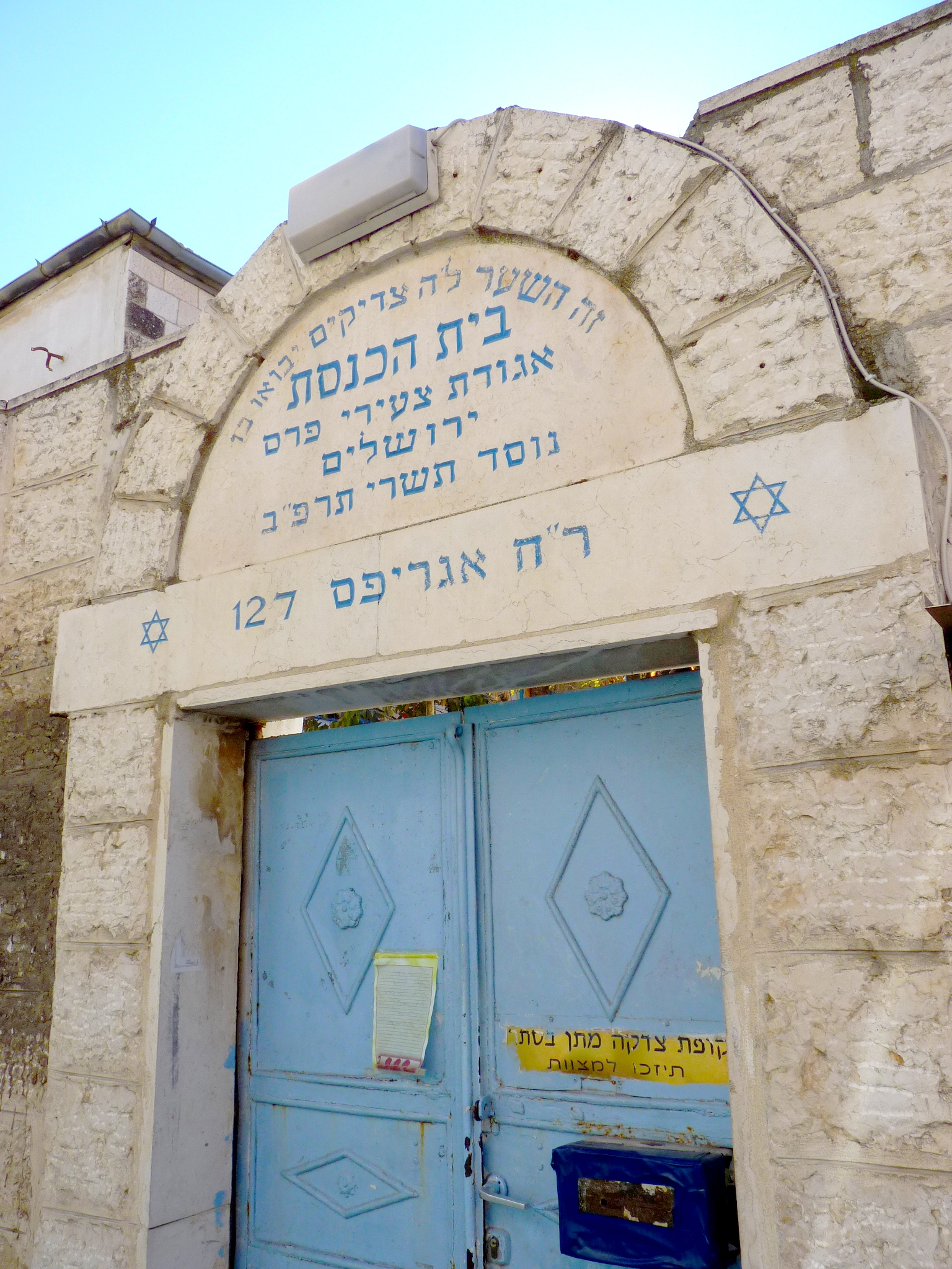 Jerusalem, Agripas street 127, synagogue door with the biblical verse Psalms 118:20 "This is the gate of the LORD through which the righteous may enter."